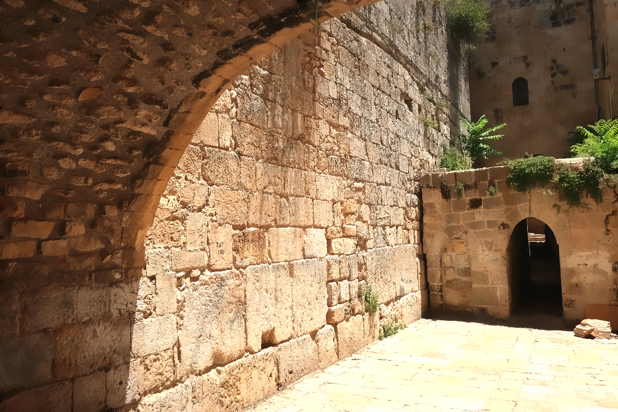 Extension of Jerusalem's Western Wall, near the Iron Gate